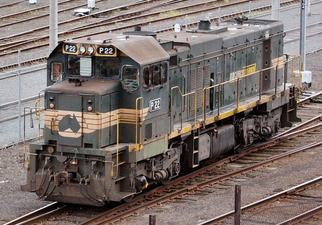 Pacific National owned P class diesel electric locomotive P22, at North Melbourne, Victoria, Australia. Freight Australia livery with Pacific National decals.